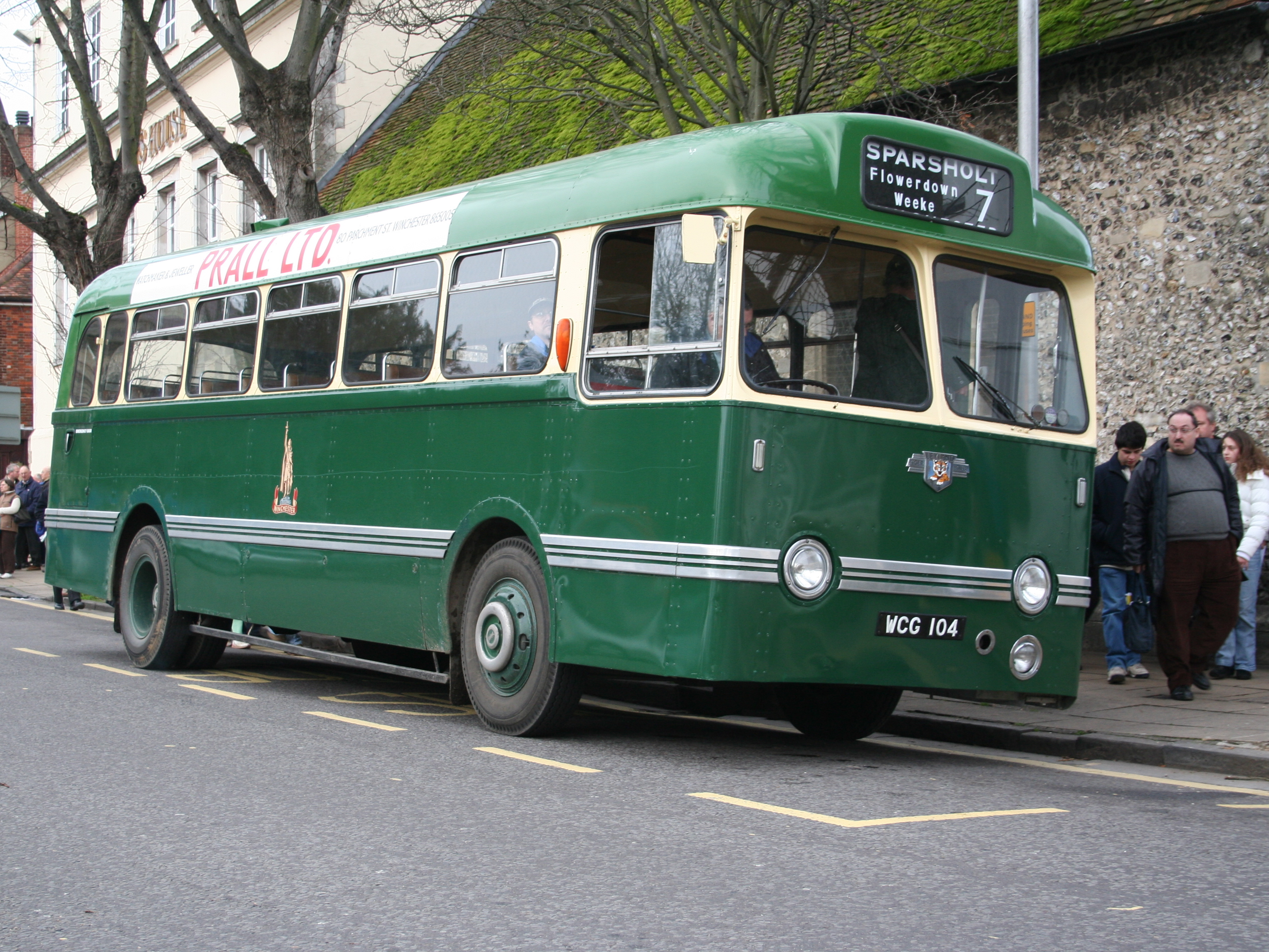 King ALfred 1959 Weymann bodied Leyland Tiger Cub